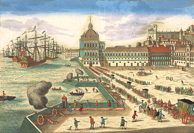 Ribeira Palace and Square in Lisbon, Portugal.